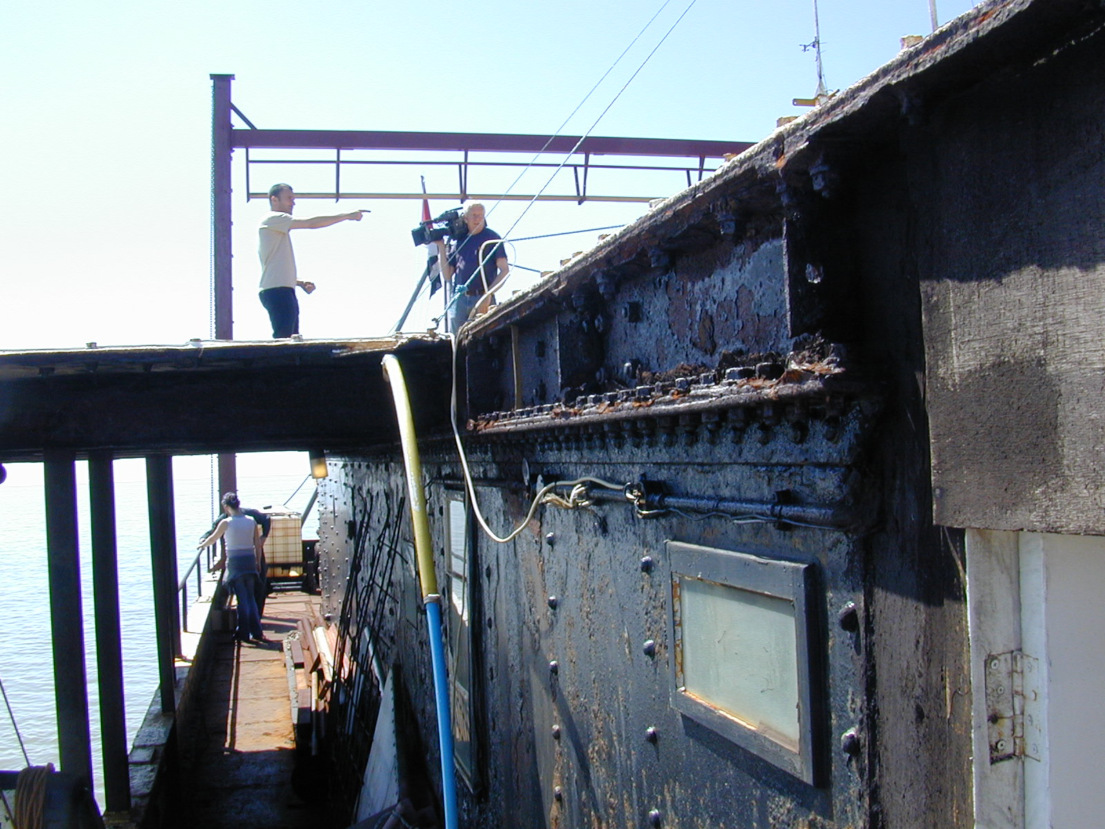 BBC news crew filming an interview on Sealand